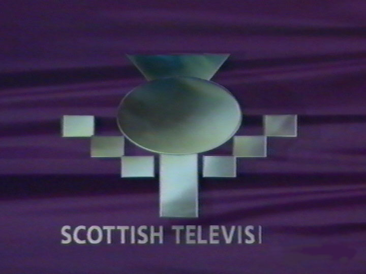 Still frame from animated ident for Scottish Television produced by Liquid Image.